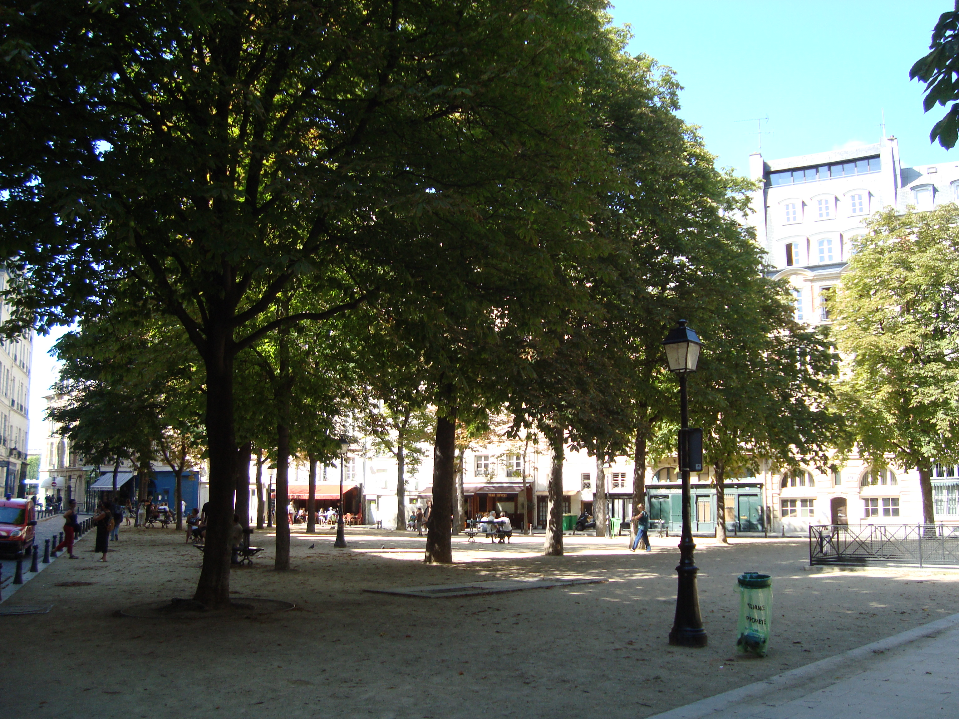 Place Dauphine, Paris